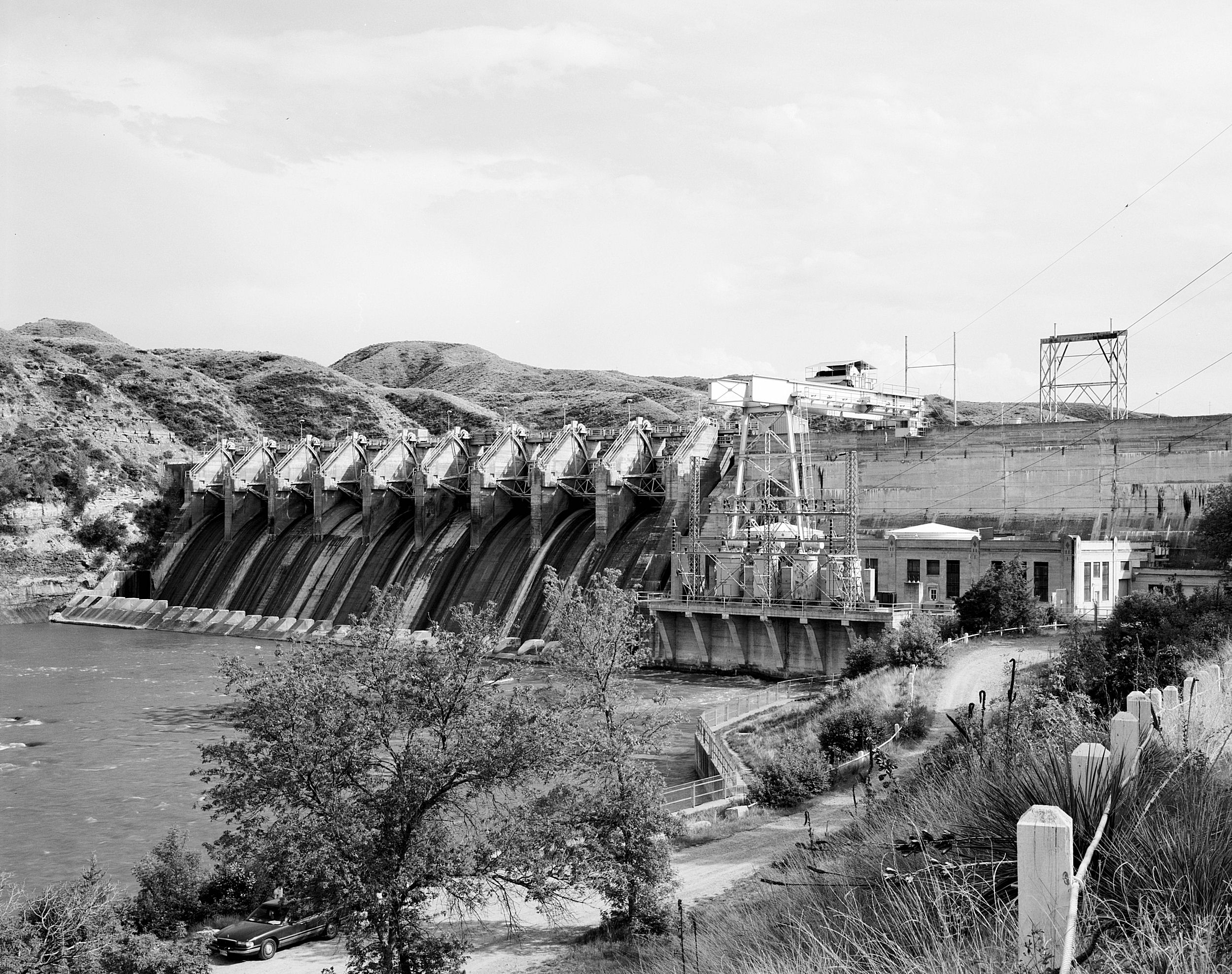 Looking southeast at Morony Dam and its powerhouse. Morony Dam is located in Cascade County, Montana, in the United States. It crosses the Missouri River.